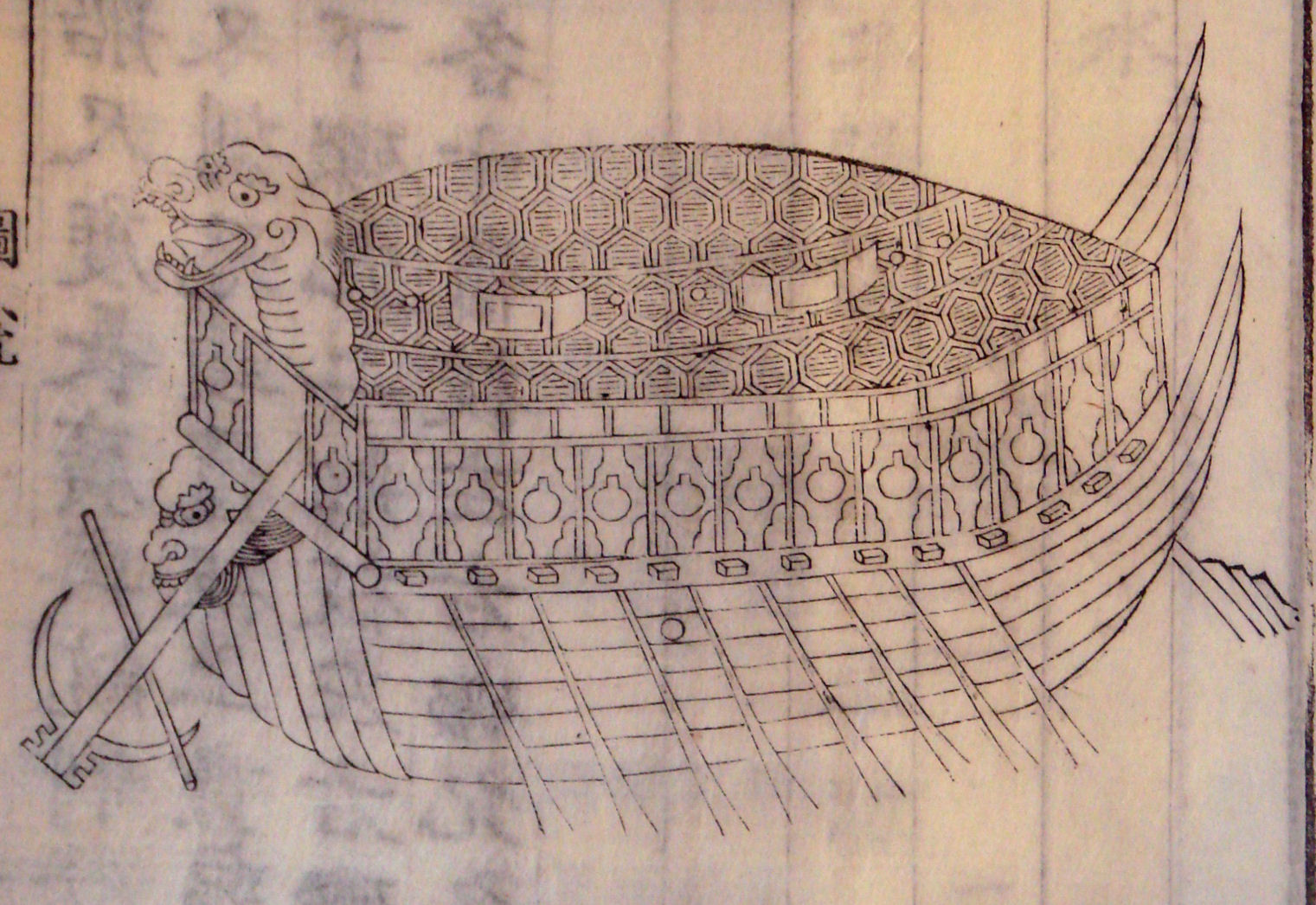 16th century Korean turtle ship in a depiction dating to 1795. The woodblock print is based on a contemporary, late 18th century model.[1][2]